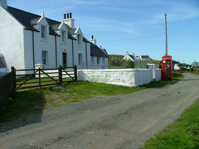 Telephone box and the Old Post Office